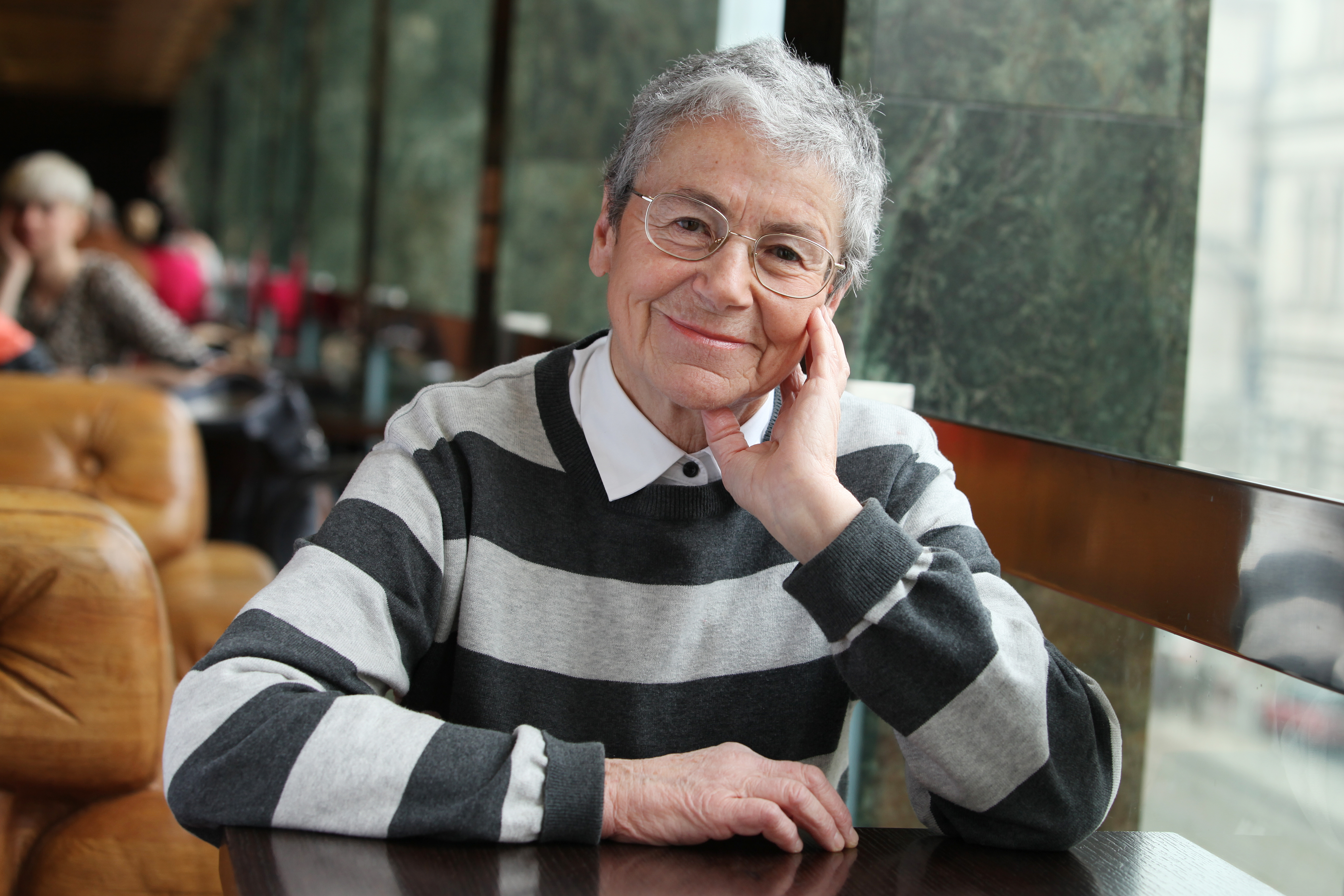 Helena Illnerová (* 28. 12. 1937 Prague) is a czech physiologist and former President of the Czech Academy of Science.